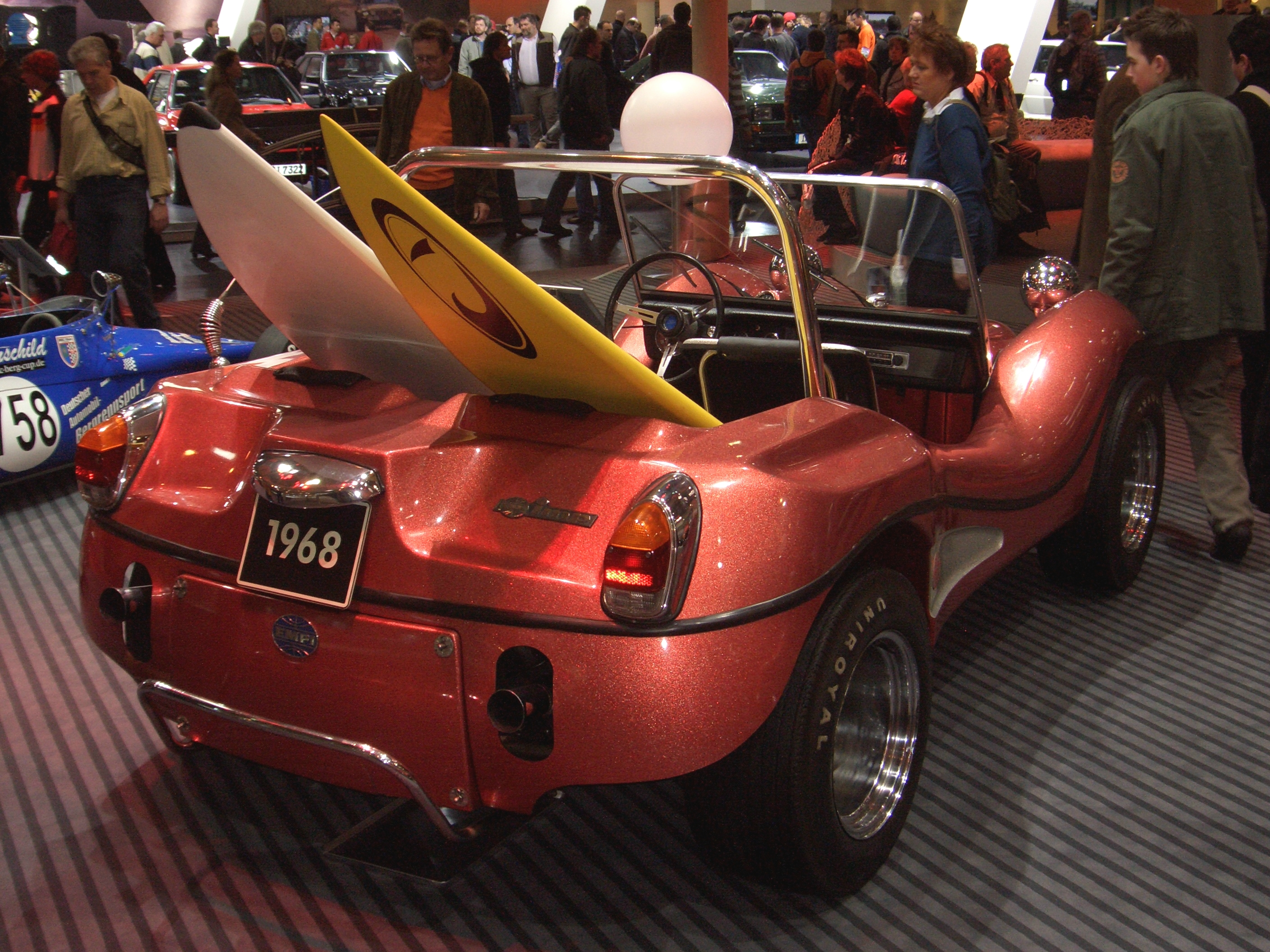 EMPI Imp, Volkswagen Beetle based Dune Buggy, 1968, seen at TECHNO CLASSICA in Essen, Germany